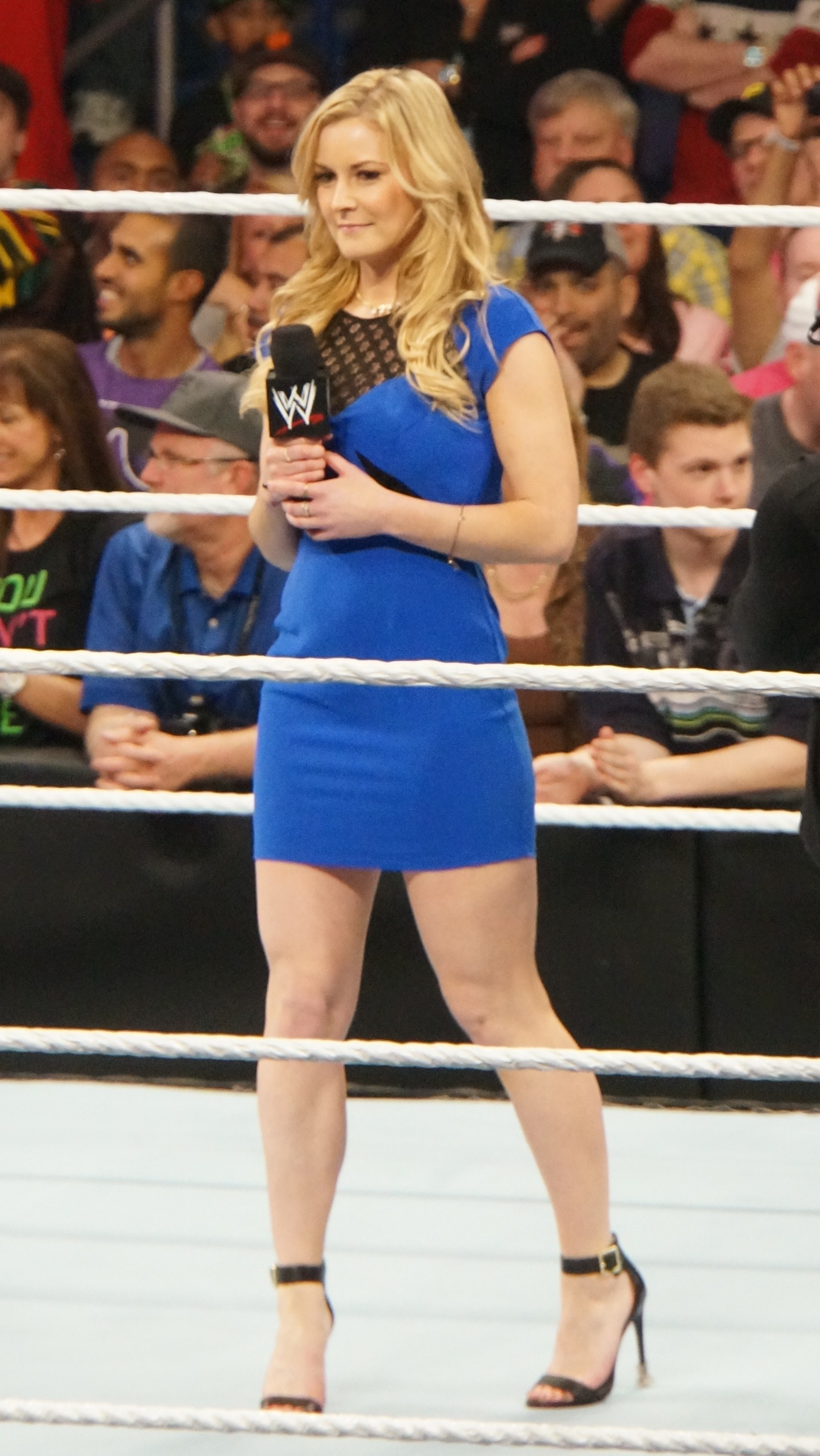 Renee Young on the post-WrestleMania Raw on 7 April 2014.